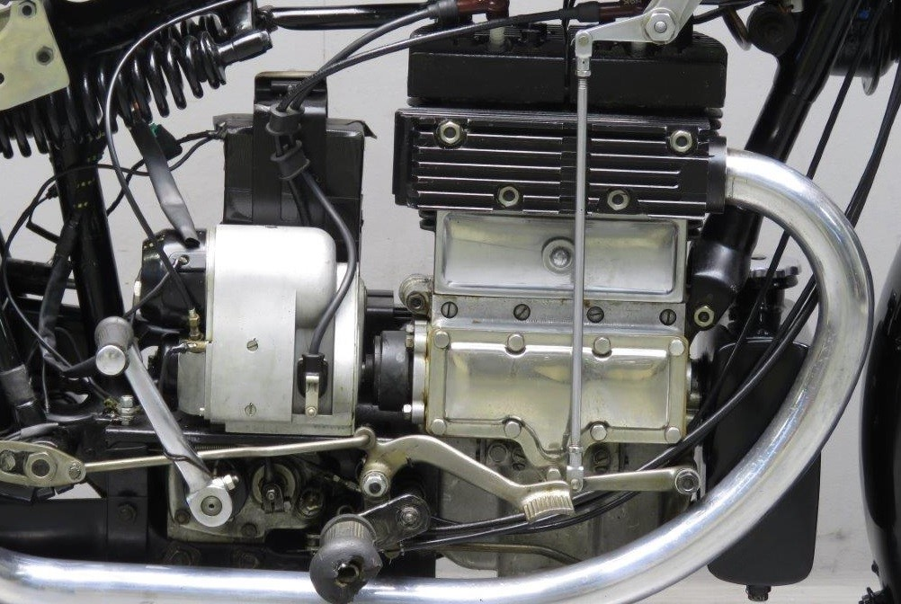 1930 Matchless Silver Arrow 400 cc side valve V-twin right side